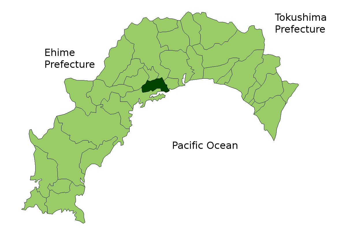 Map of Kochi Prefecture highlighting Tosa city. Borders of map as of October, 2006. (blank map used from [1]) See also Image:KochiMapCurrent.png